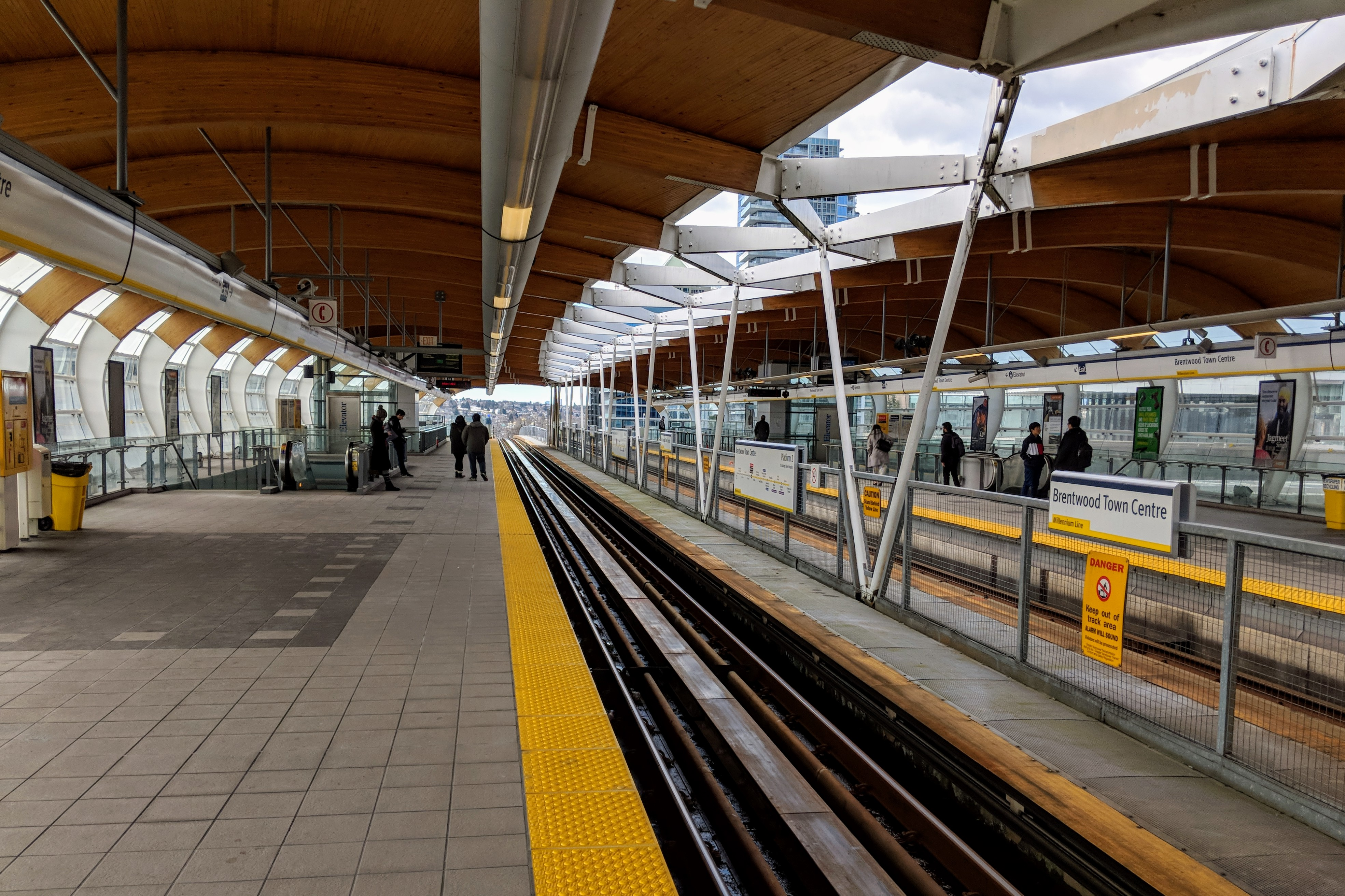 Platform level at Brentwood Town Centre station.